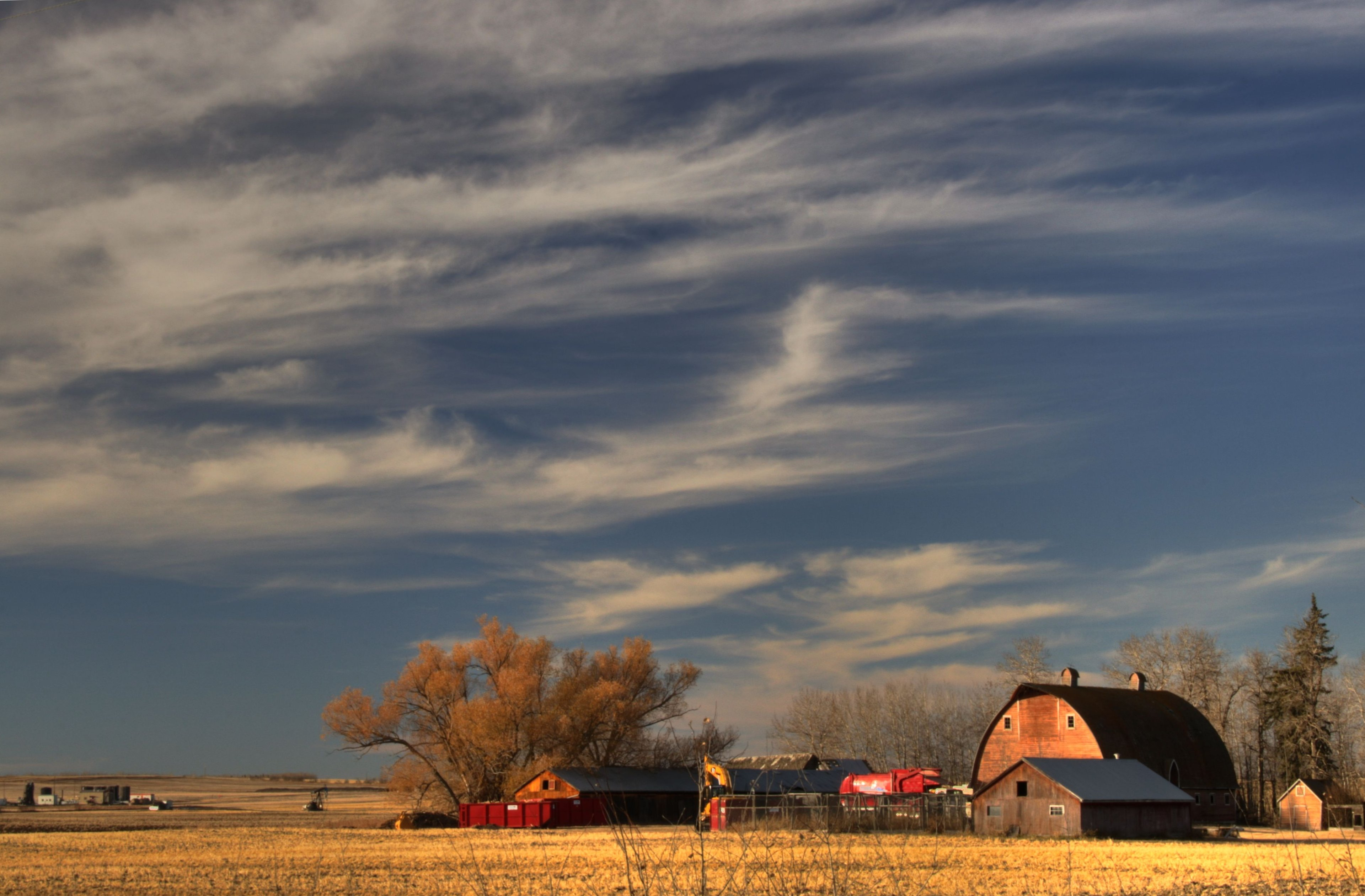 An autumn afternoon at a farm north of Highway 37, west of St. Albert, Alberta, Canada.